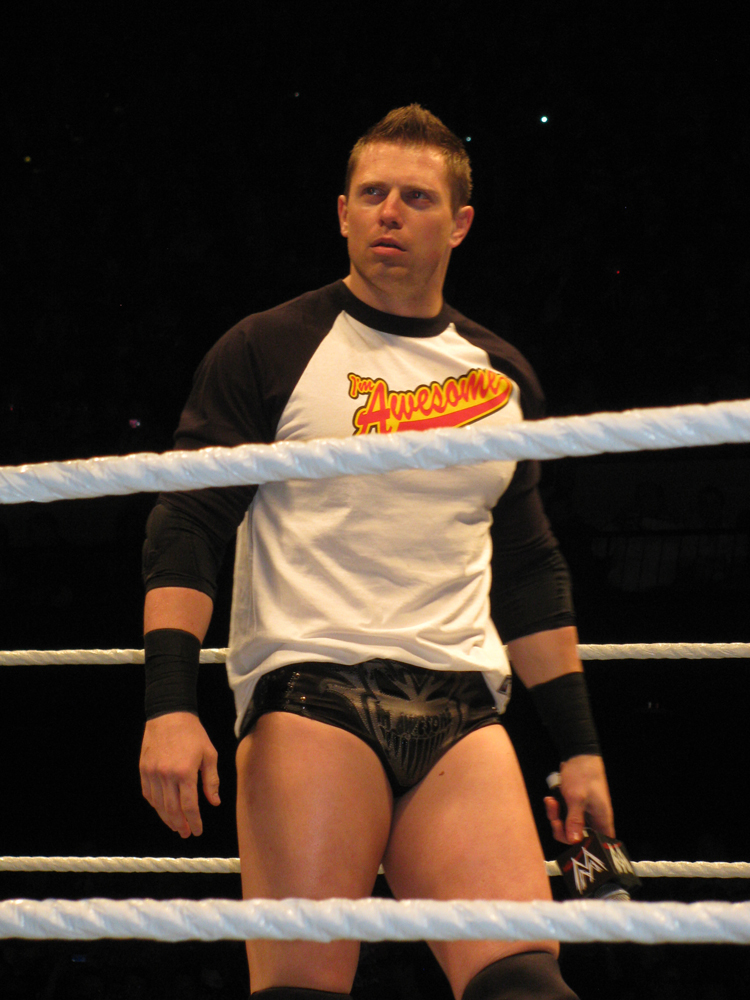 The Miz at a WWE Raw live event in Adelaide, South Australia on July 4, 2011.